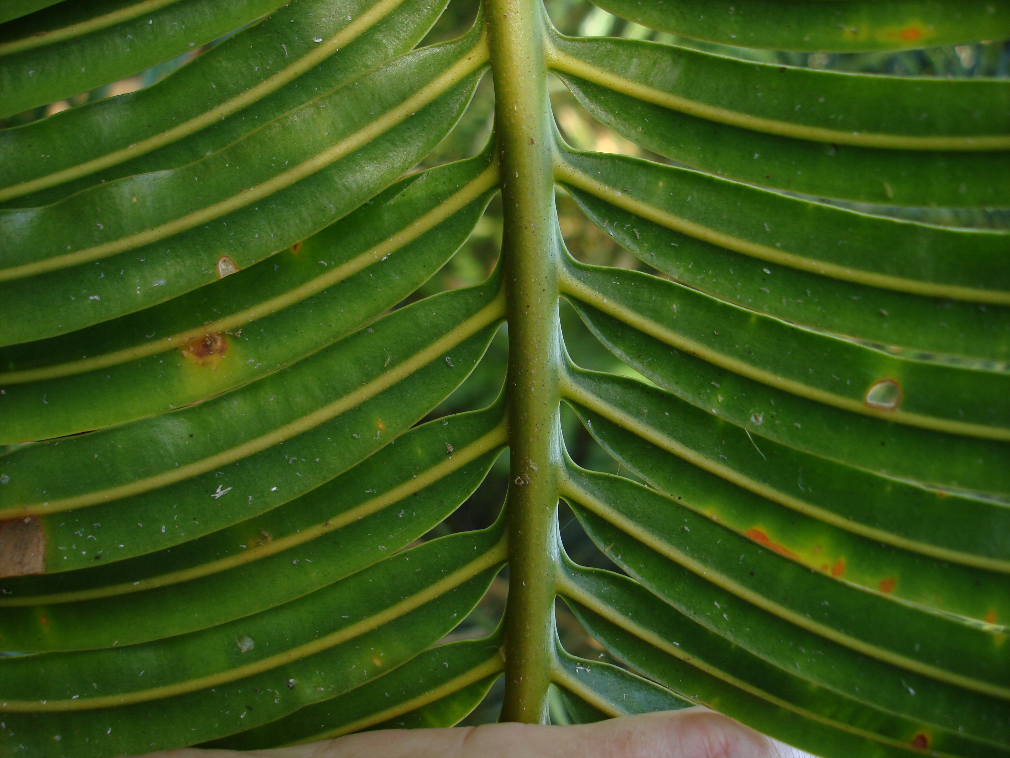 Leaves of C. Micronesica